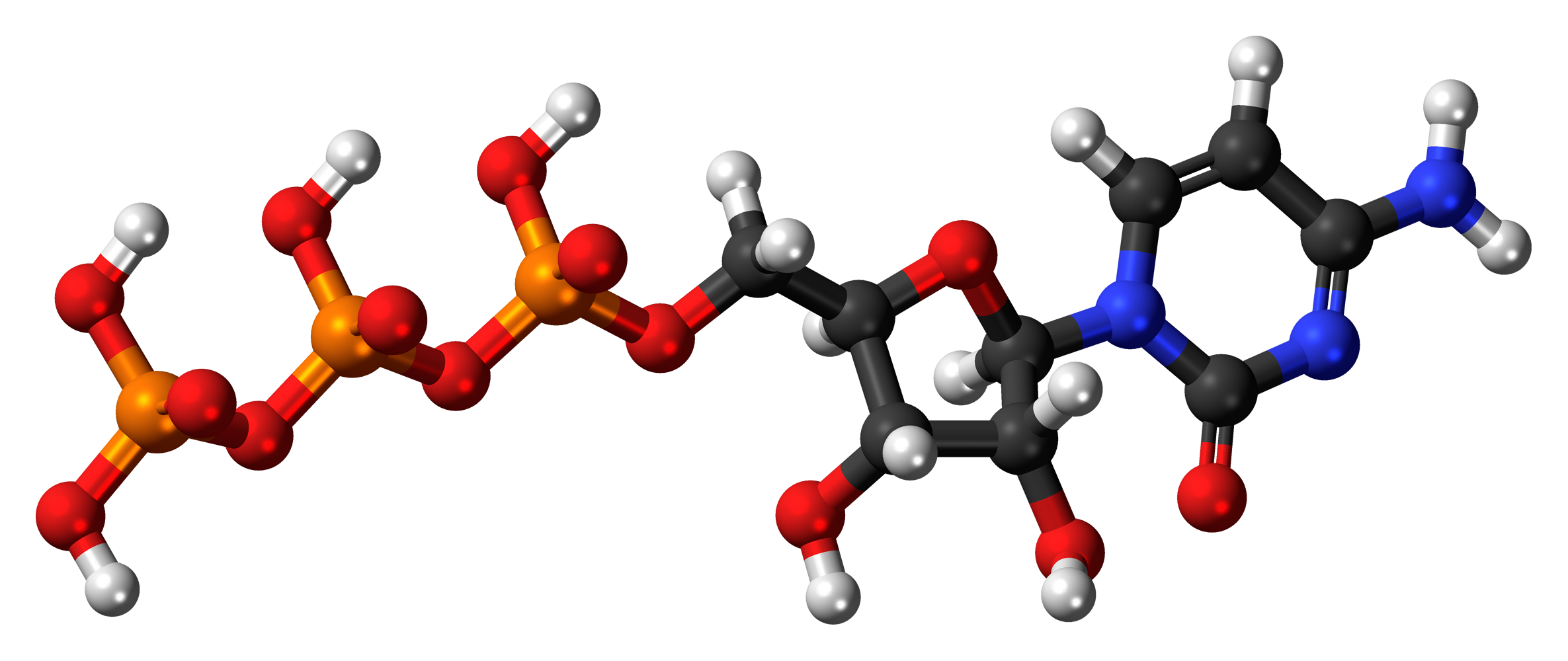 Ball-and-stick model of the cytidine triphosphate molecule, also known as CTP, a nucleotide. This image shows the electrically neutral form. Colour code: Carbon, C: black Hydrogen, H: white Oxygen, O: red Nitrogen, N: blue Phosphorus, P: orange